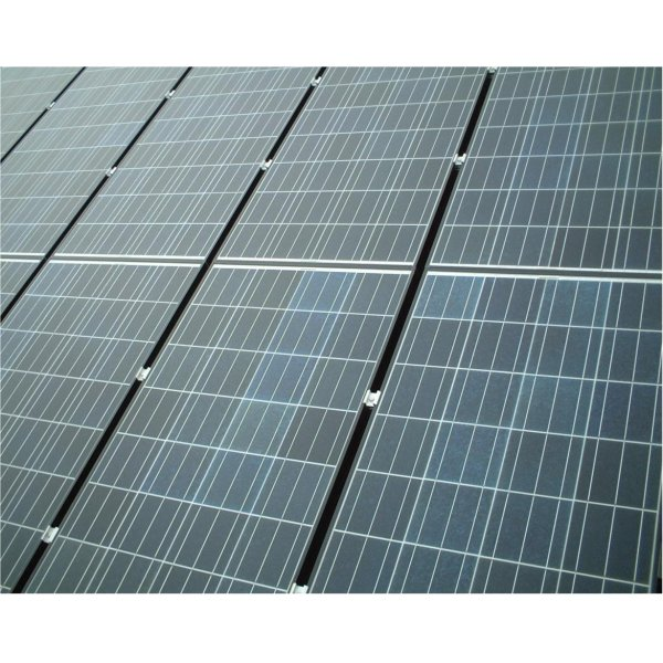 Image